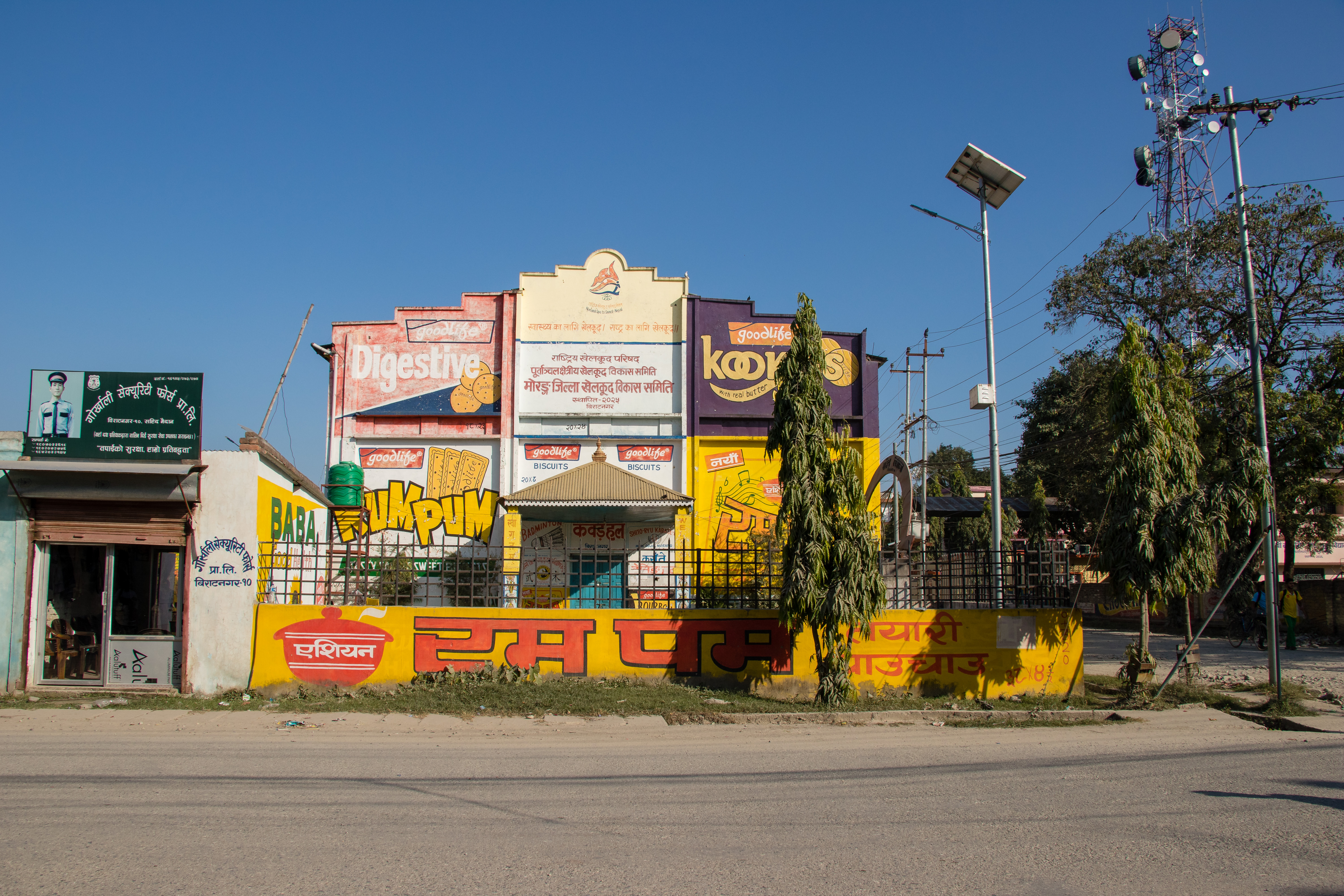 Sahid Rangasala is a multi-purpose stadium in Biratnagar, Province No. 1, Nepal. It has a capacity of 10,000 spectators. It was renovated for hosting the SAFF Women's Championship in 2019. The stadium is home to Morang XI.